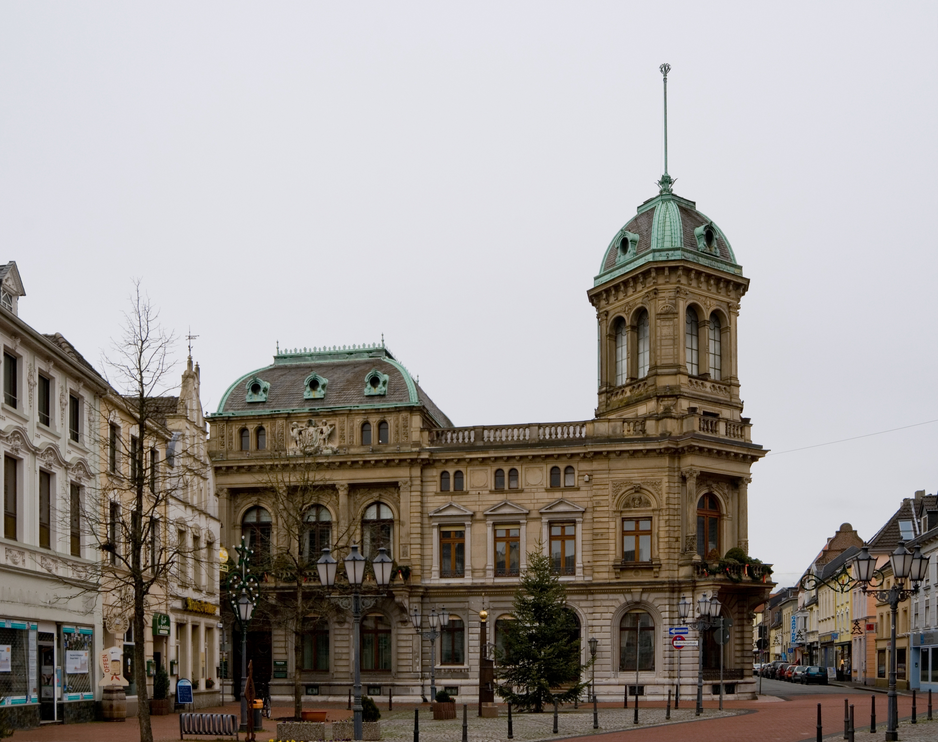 Rheinberg (North Rhine-Westphalia, Germany), historic town centre This photograph was taken with a Nikon D3000. DSC 0069.JPG